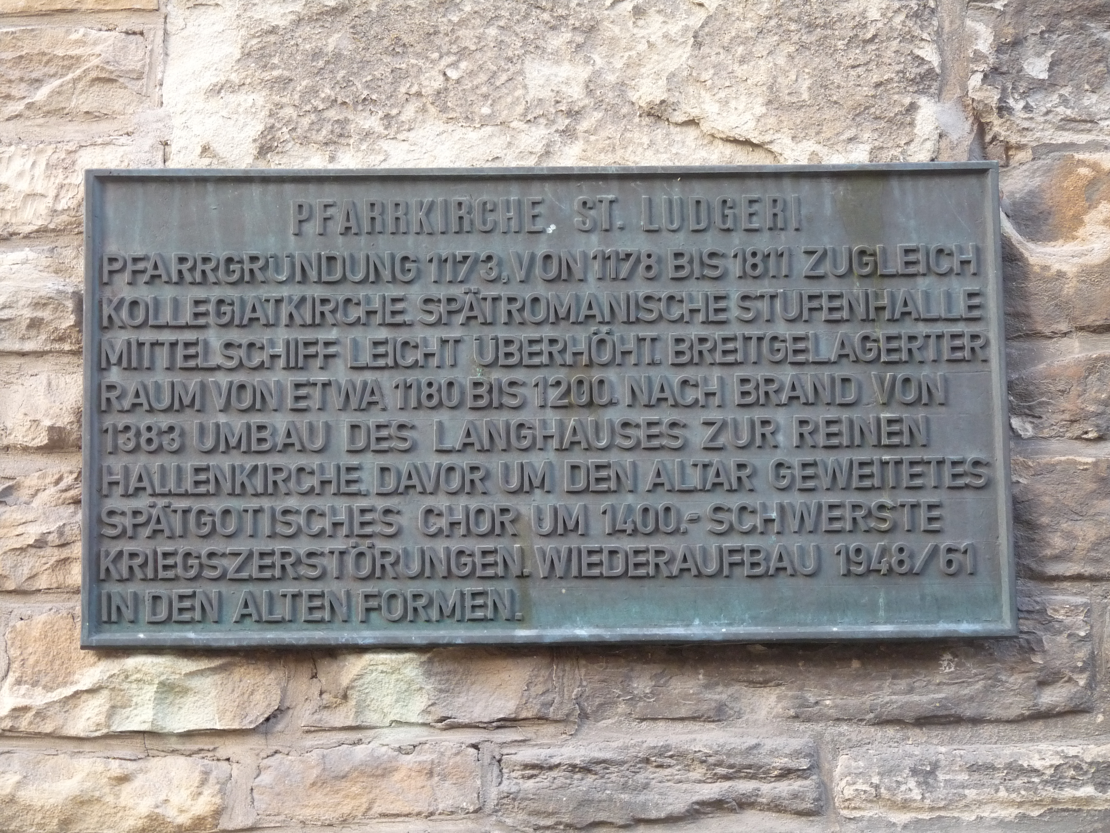 information board at St. Ludgeri in Münster (Germany)